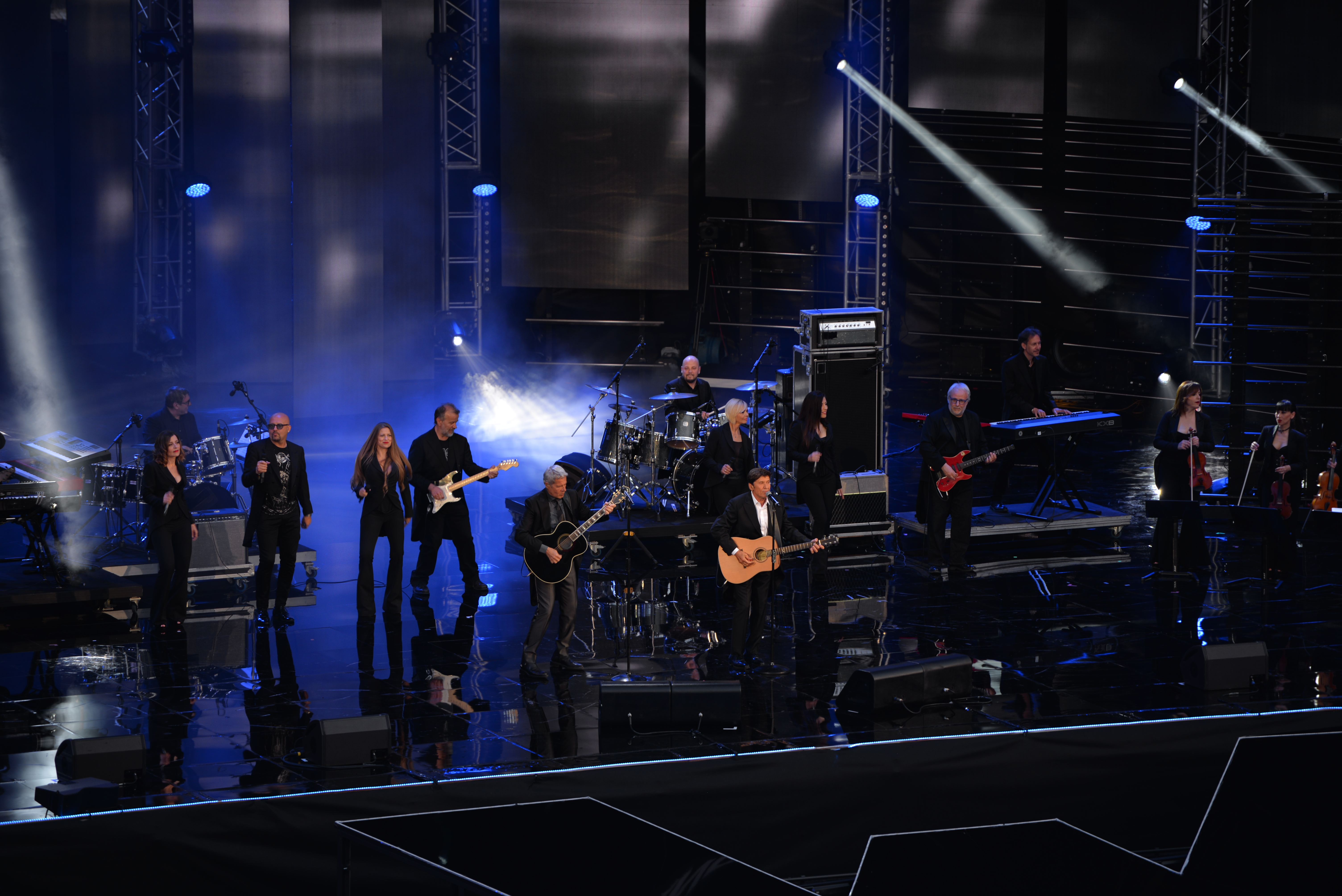 Cladio Baglioni and Gianni Morandi at the Wind Music Awards 2016 ceremony at Verona Arena